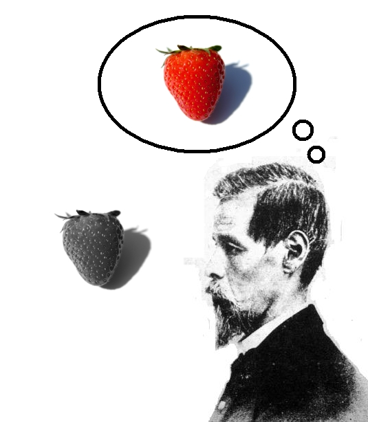 quaia of redness of a strawberry. イチゴの赤のクオリア。